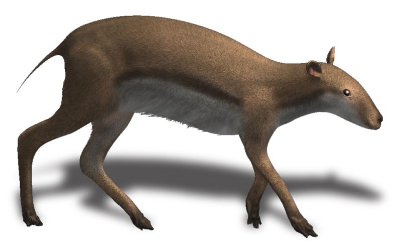 Leptomeryx evansi, Oligocene of North America. Digital.